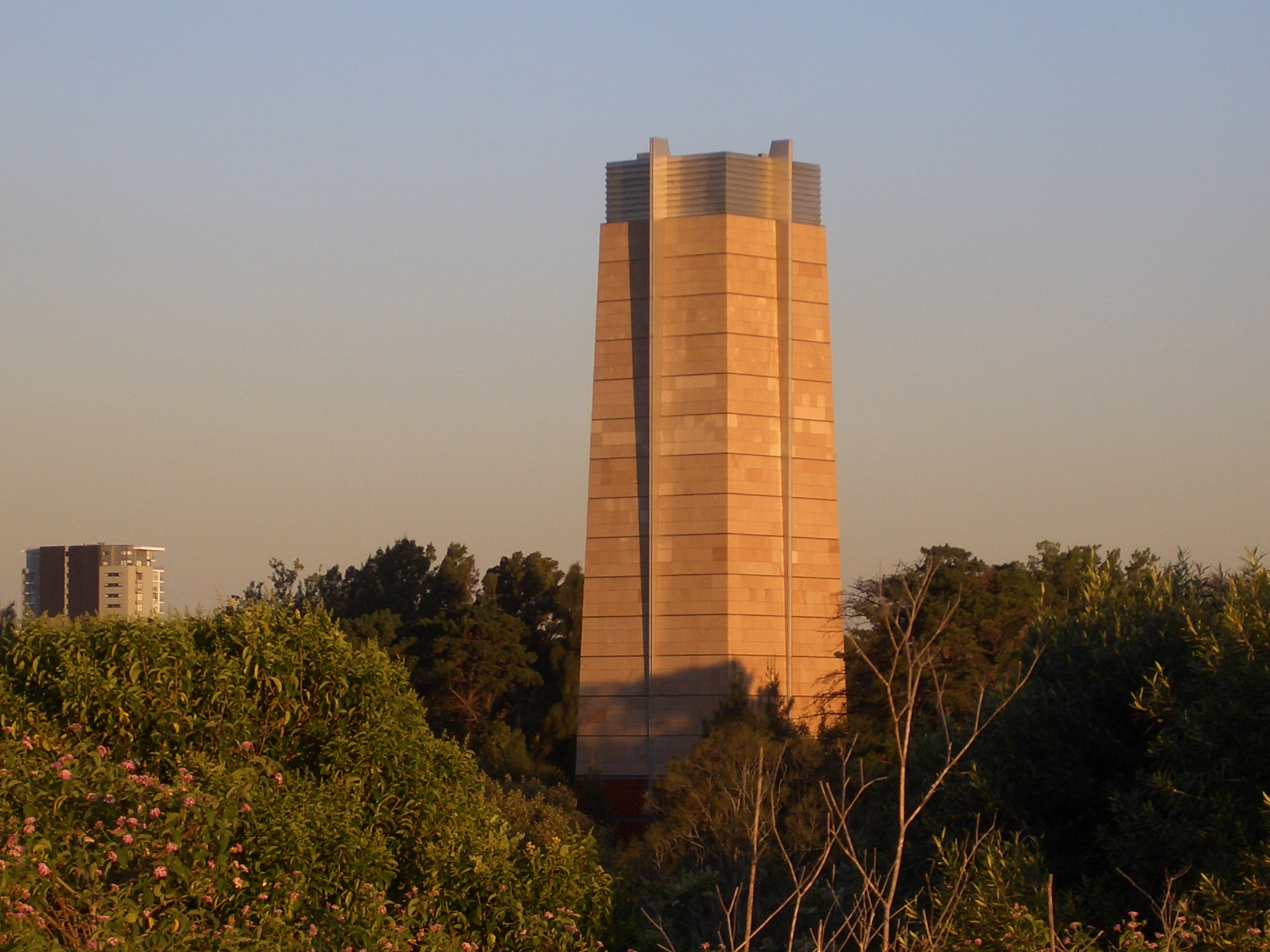 M5 Motorway Stack, Turrella, Sydney